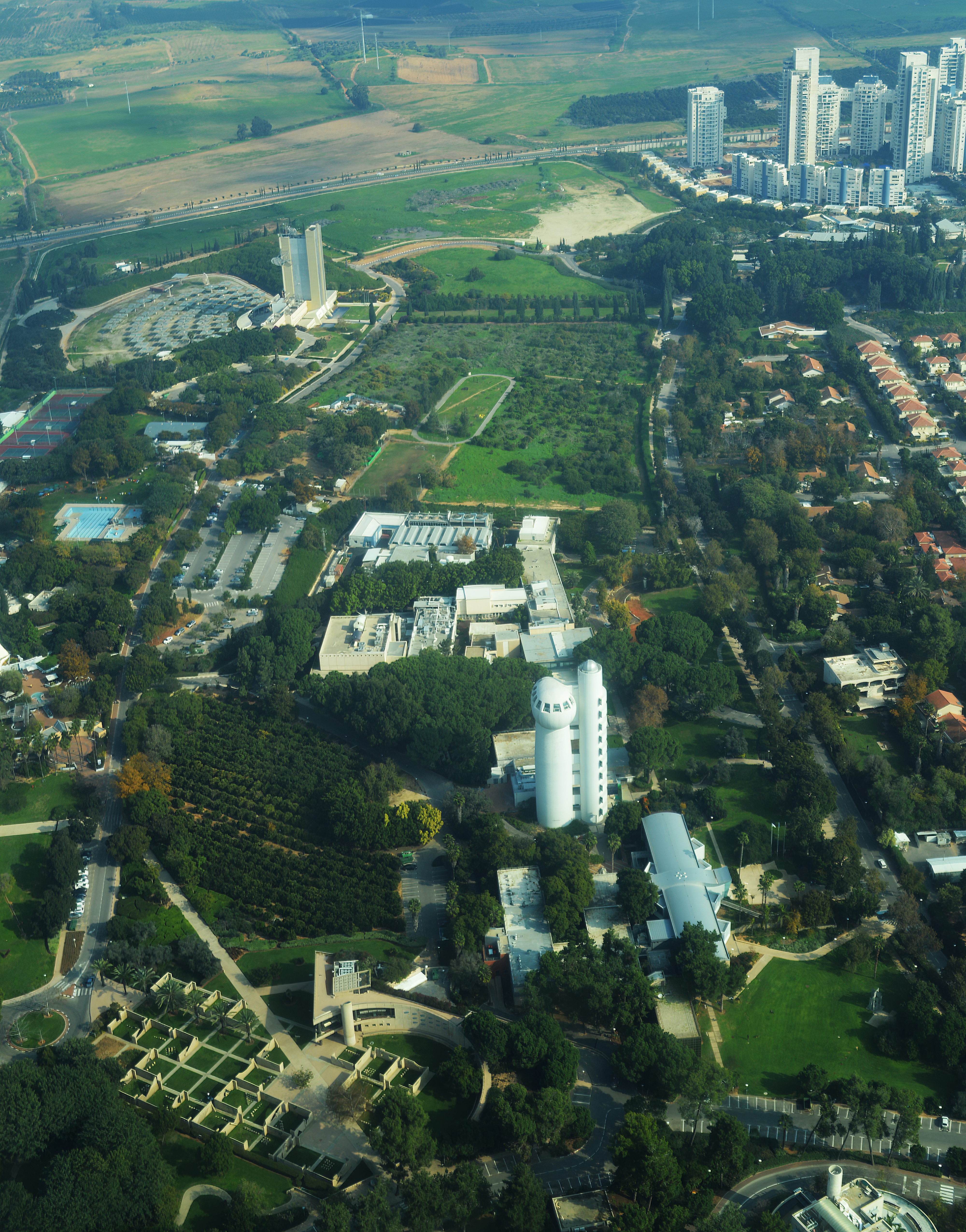 Weizmann Institute of Science Aerial View